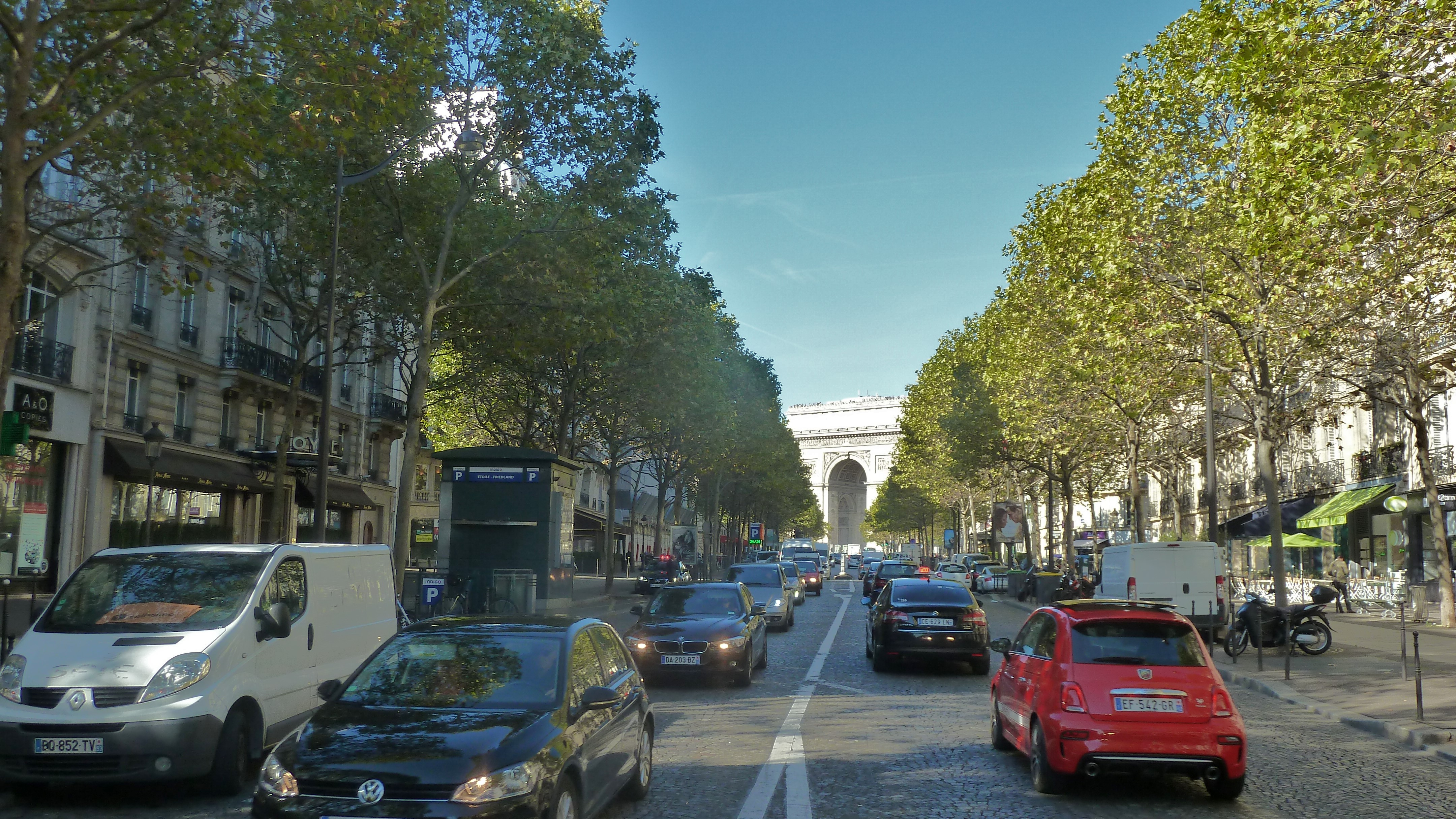 Avenue de Friedland - Blick auf Triumphbogen (Oktober 2016)